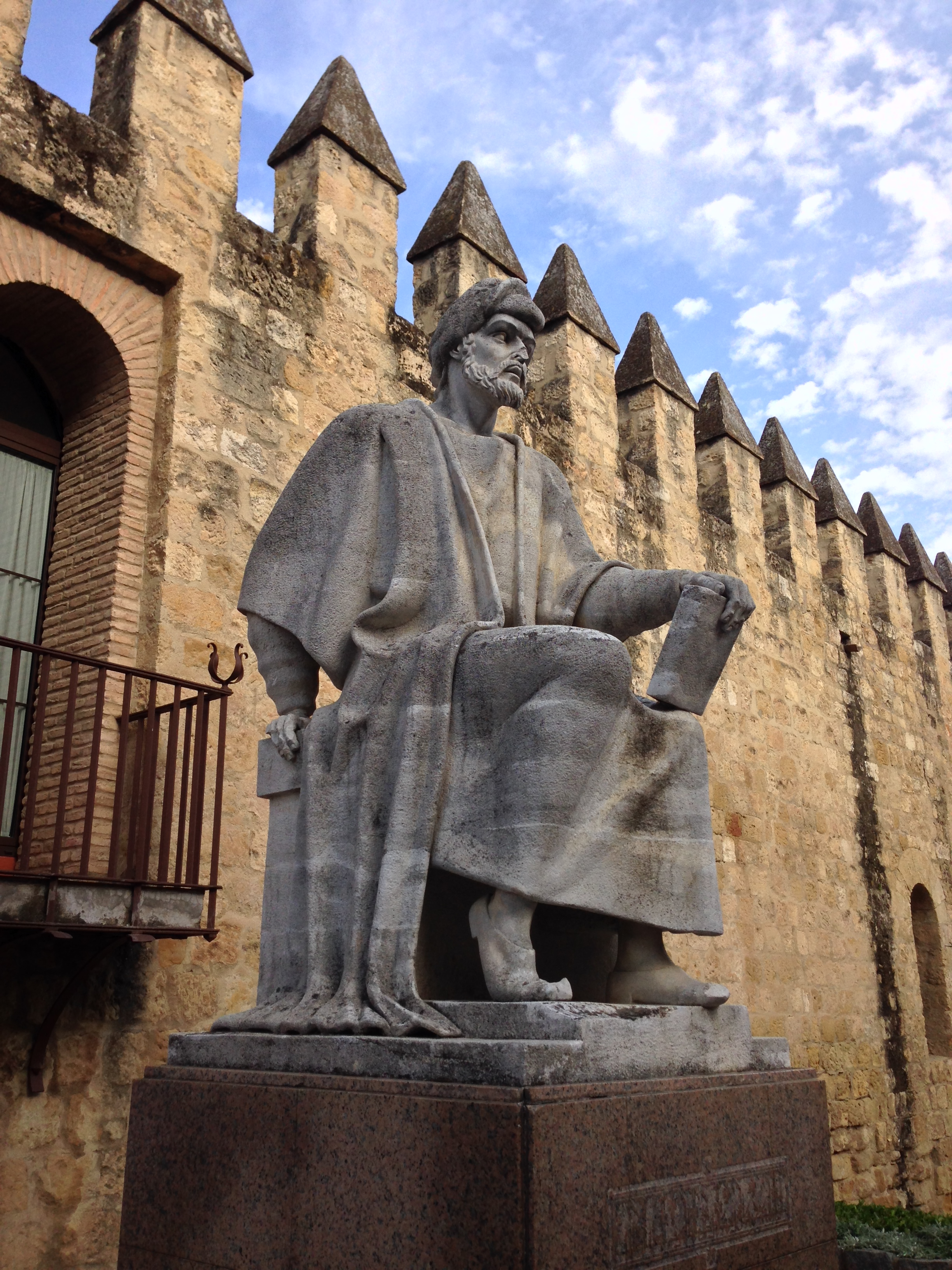 Estatua de Averroes (Ibn Rushd) en Córdoba Statue of Averroes (Ibn Rushd) in Córdoba, Spain, Averroes was an Islamic theologian, Philosopher, Mathematician, Medicine, Physicist, Astronomer